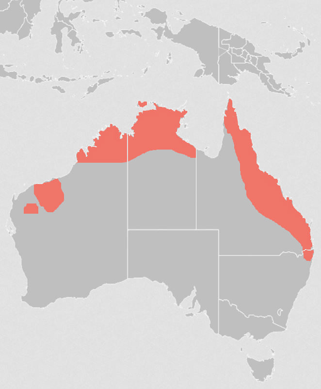 Revised distribution of the eastern long-eared bat based on IUCN 2017-1